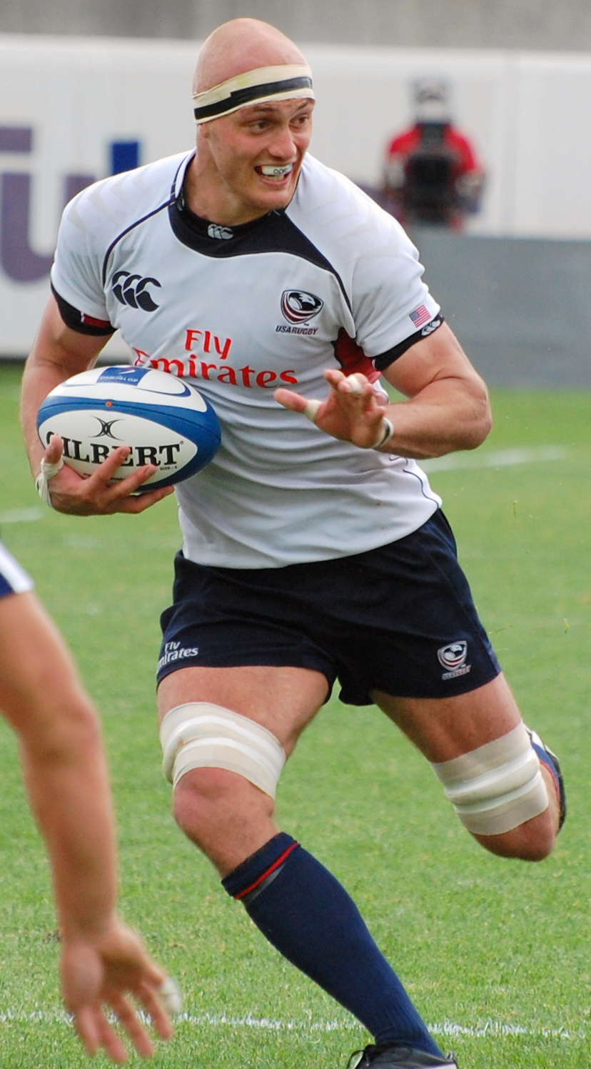 Scott Lavalla of the USA Eagles running with the ball against Russia during the 2010 Churchill Cup.